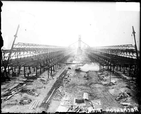 Chicago Daily News photo taken in 1915, show the construction of Navy Pier in Chicago. Taken from the CDN collection at the Library of Congress at